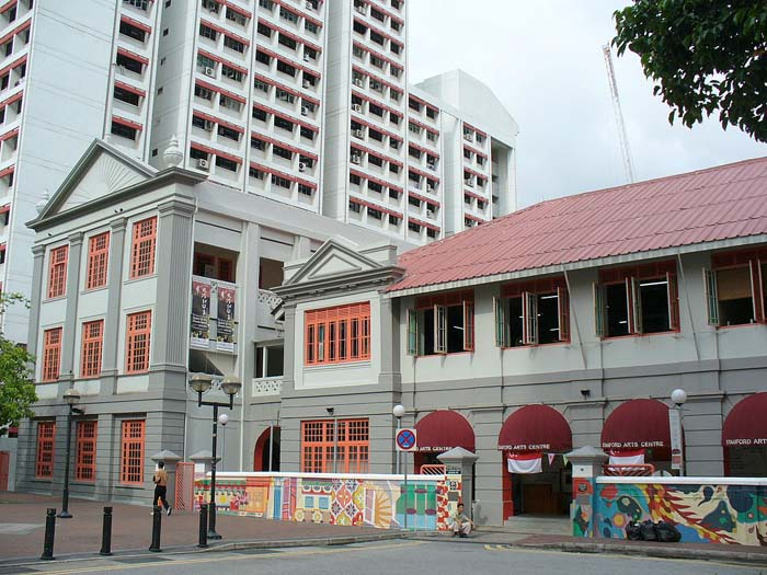 Stamford Arts Centre at Waterloo Street, Singapore. The building was occupied by Gan Eng Seng School between 1946 and 1951.